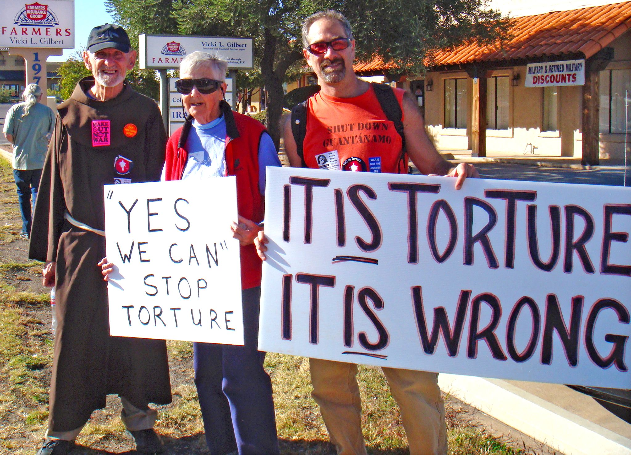 This image was taken just before a demonstration at Ft. Huachuca Army Base in southern Arizona. against the development